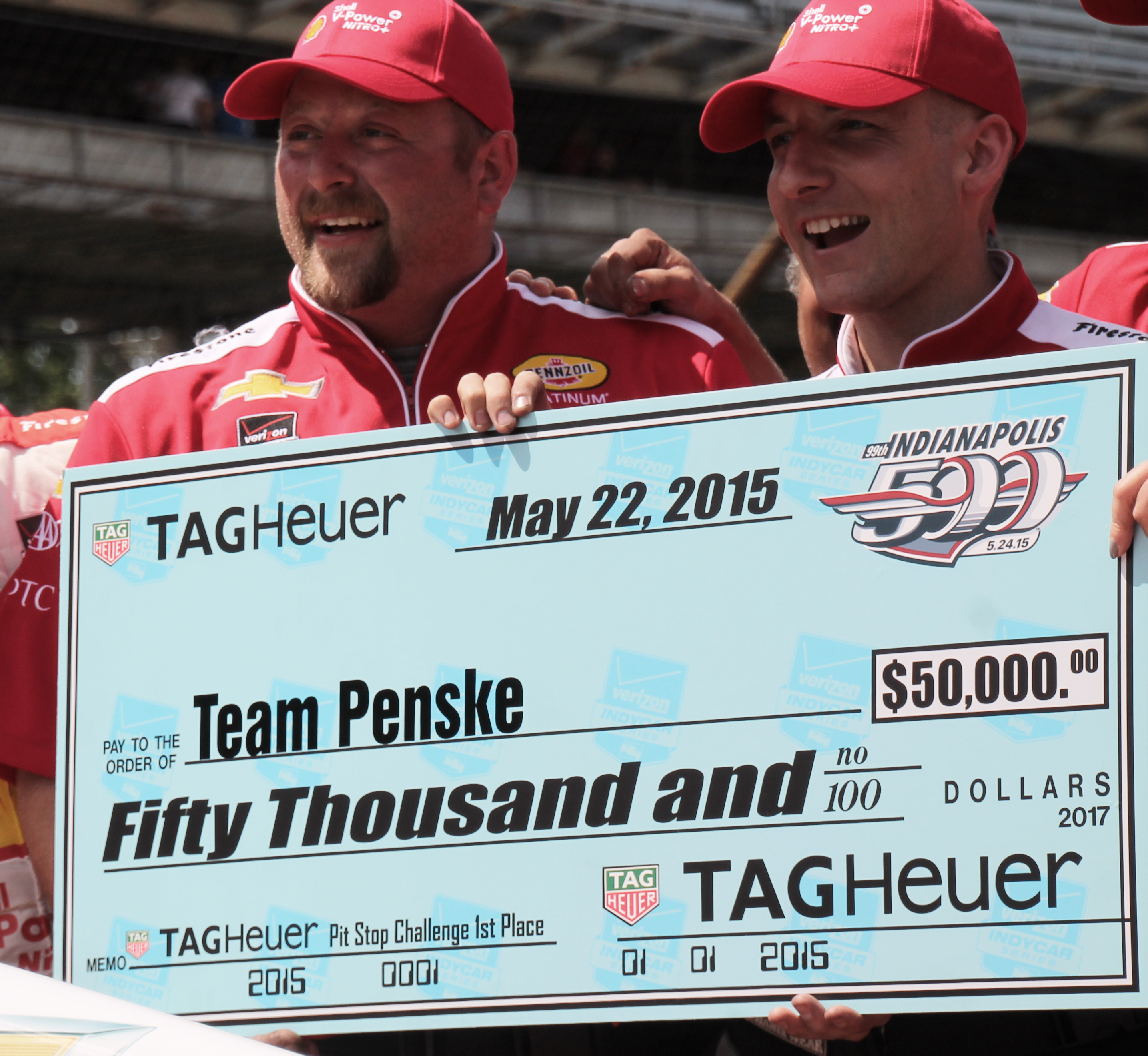 Team Penske celebrates winning the Pit Stop Challenge on Carb Day 2015 at the Indianapolis Motor Speedway